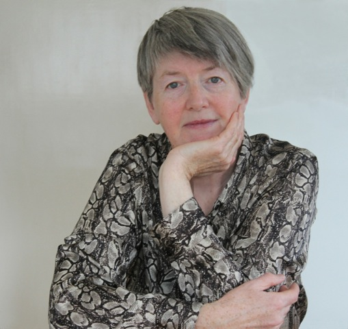 Self-portrait of Marie Hanlon